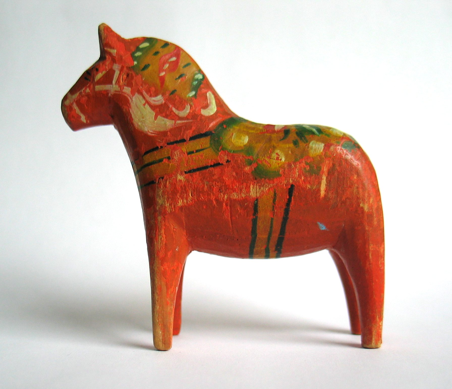 An old wooden Dalecarlian horse. Wither height about 5.5 cm.